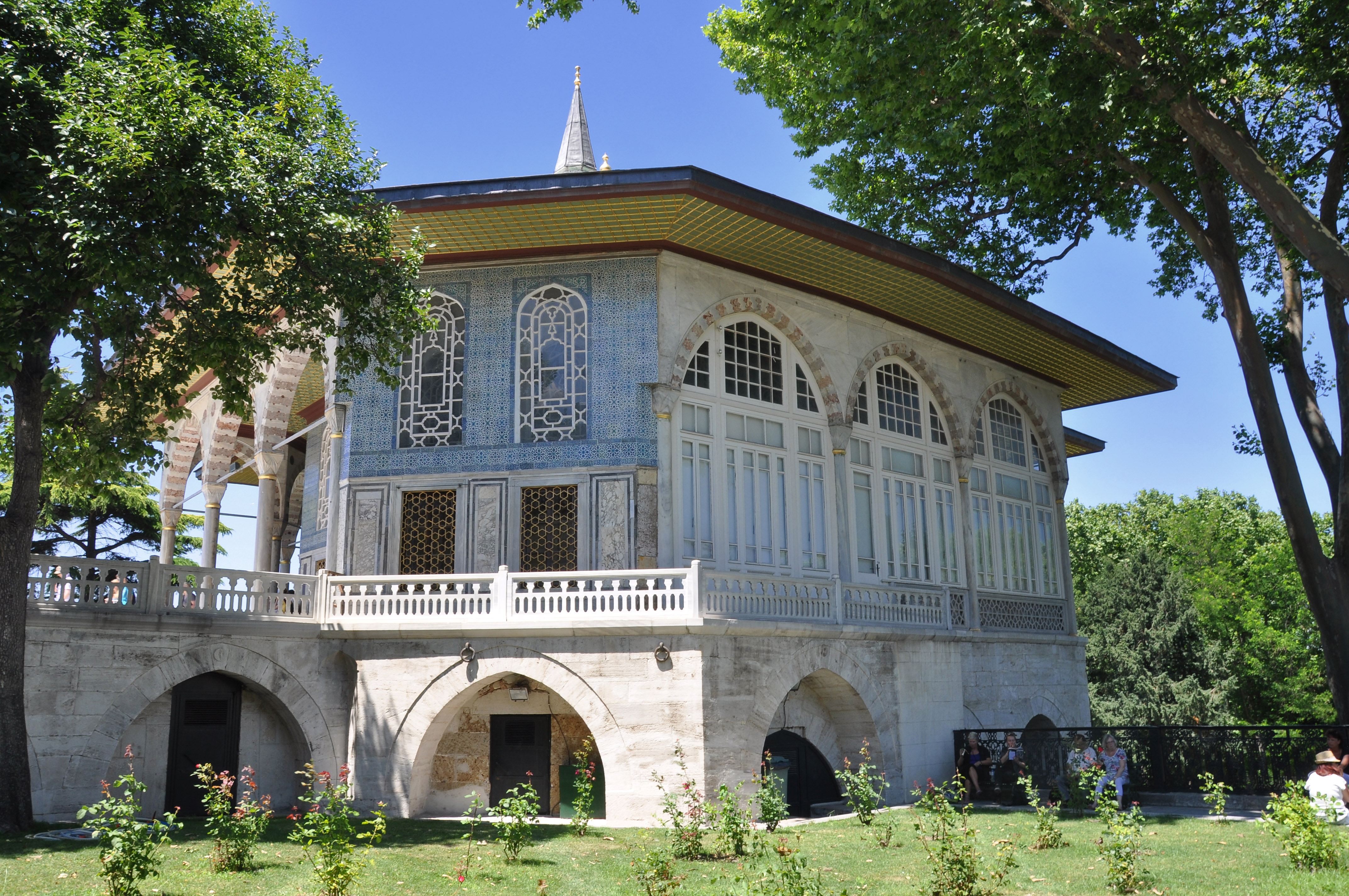 Baghdad Kiosk (Bağdad Köşkü) in the Fourth Courtyard of the Topkapı Palace in Istanbul, Turkey.